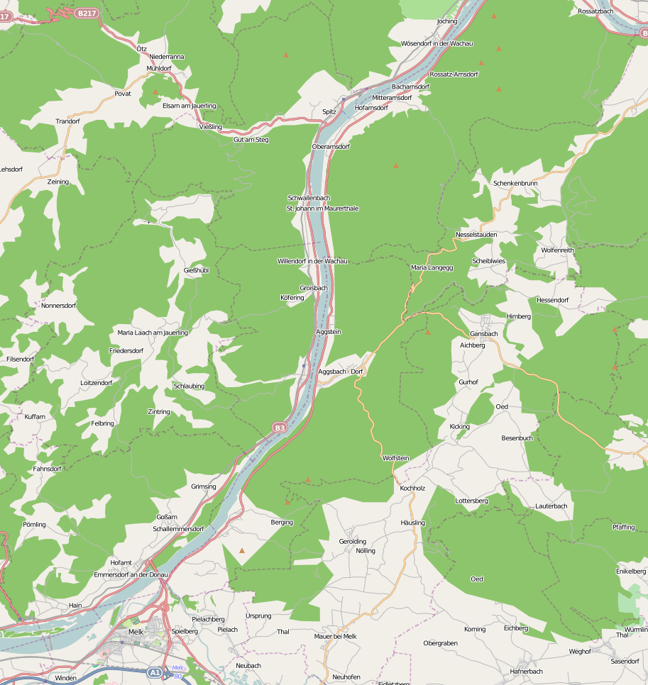 Map of the lower part of the Wachau valley